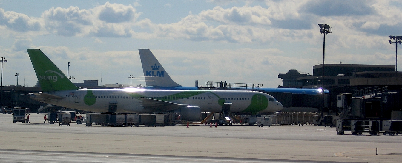 Photo of a Song airplane taken on July 20, 2007 At San Francisco Intl Airport.